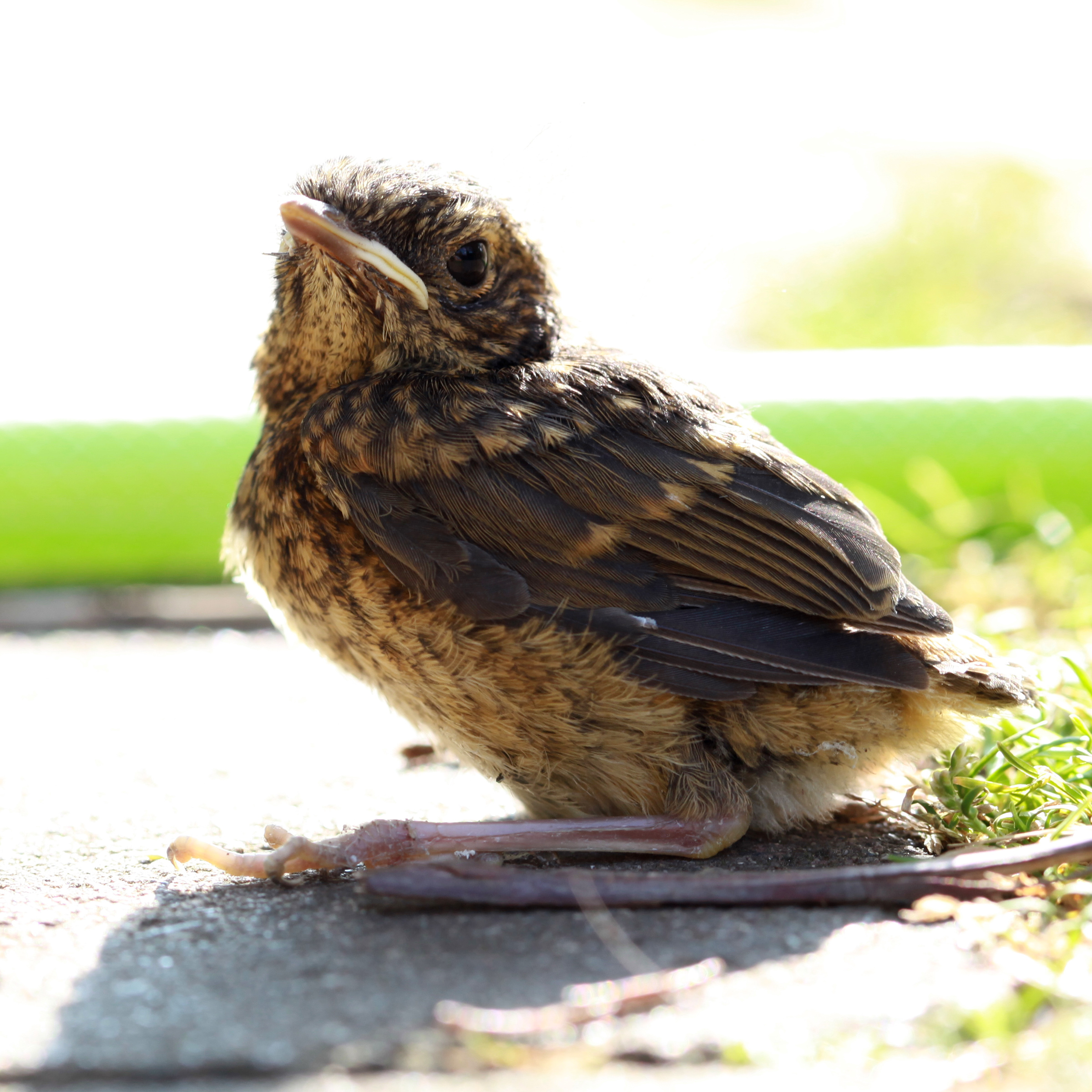 Juvenile European Robin Erithacus rubecula, a few hours after leaving it´s nest.